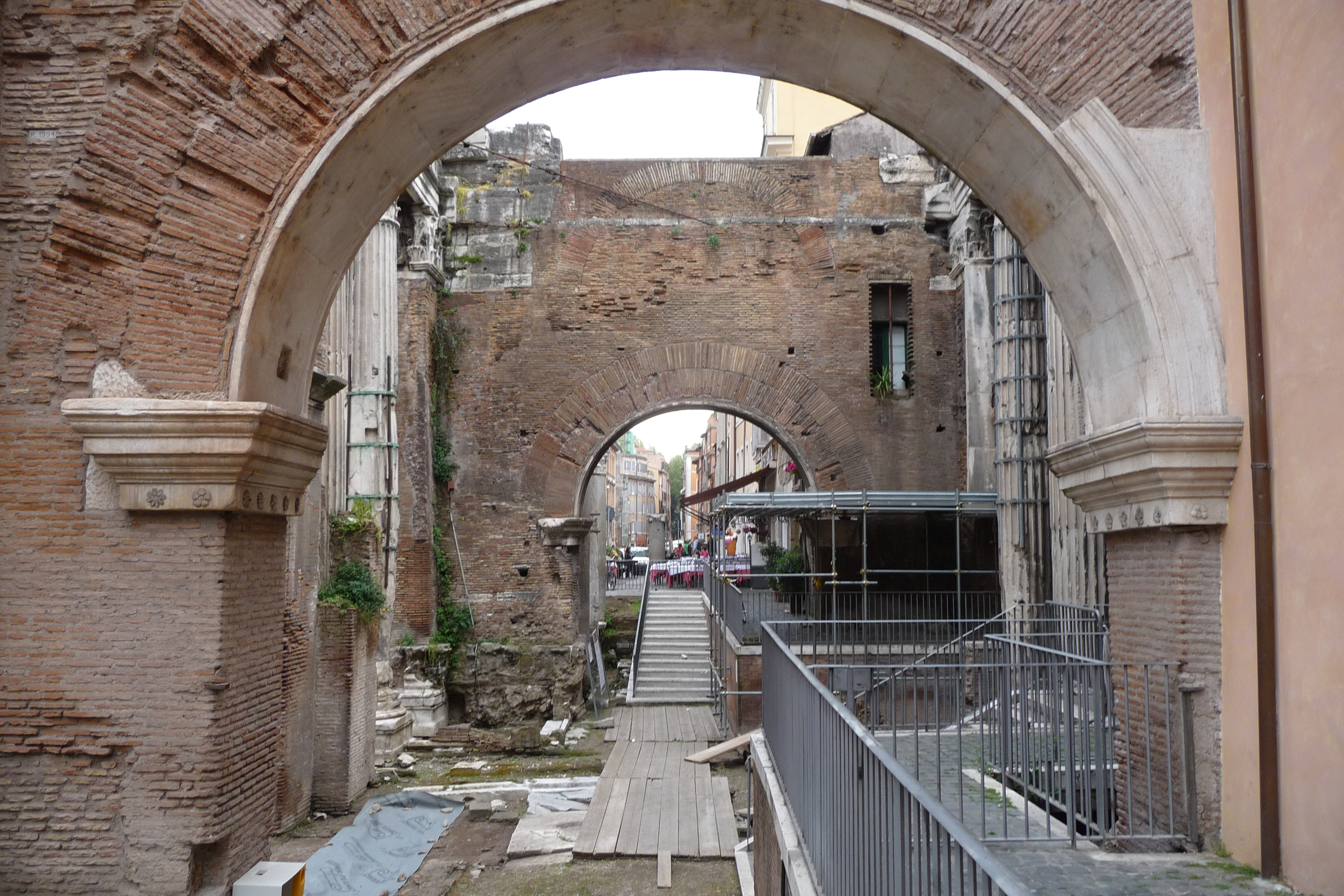 Ghetto in Rome